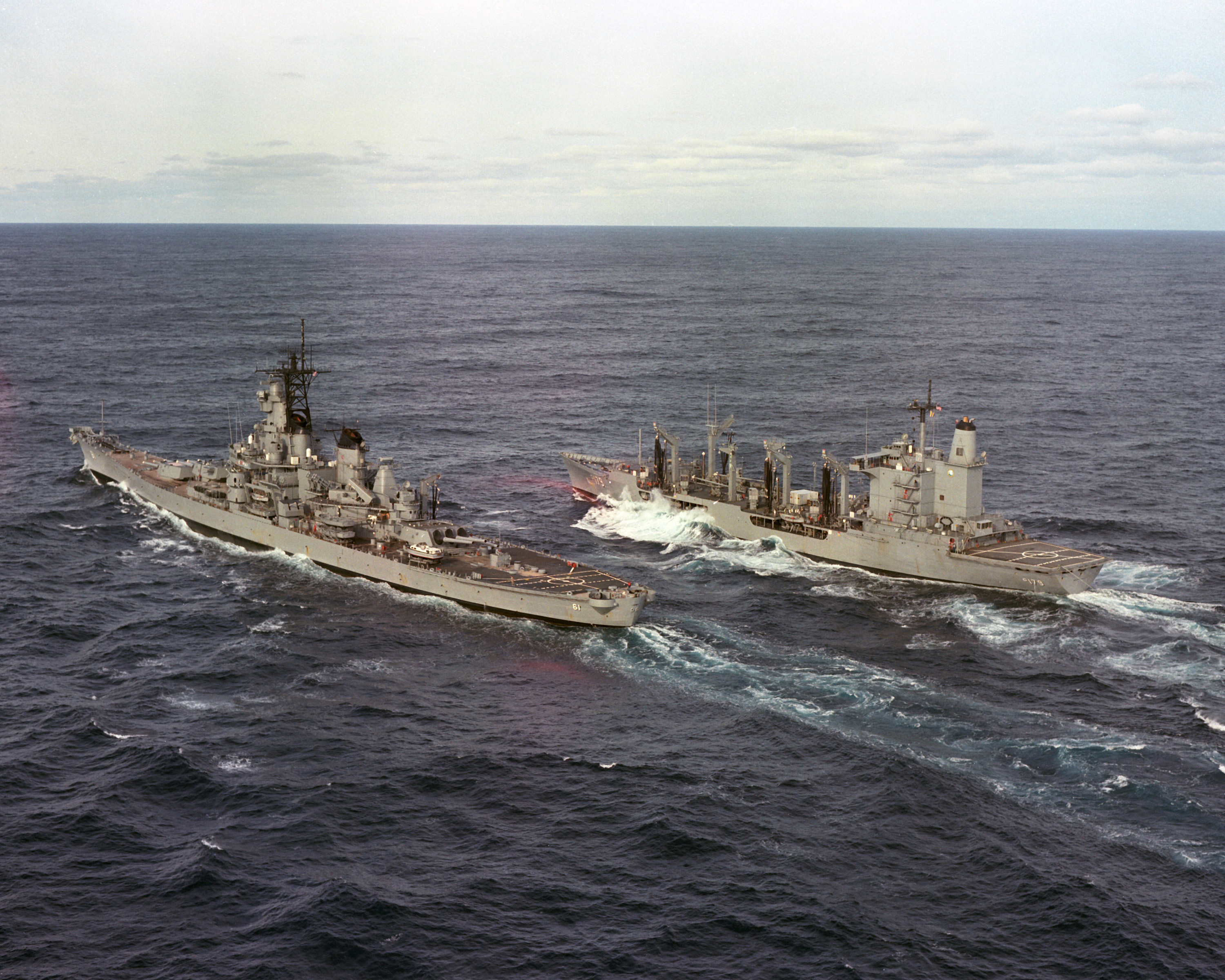 The U.S. Navy battleship USS Iowa (BB-61) after completing an underway replenishment with the fleet oiler USS Merrimack (AO-179) on 11 January 1985.